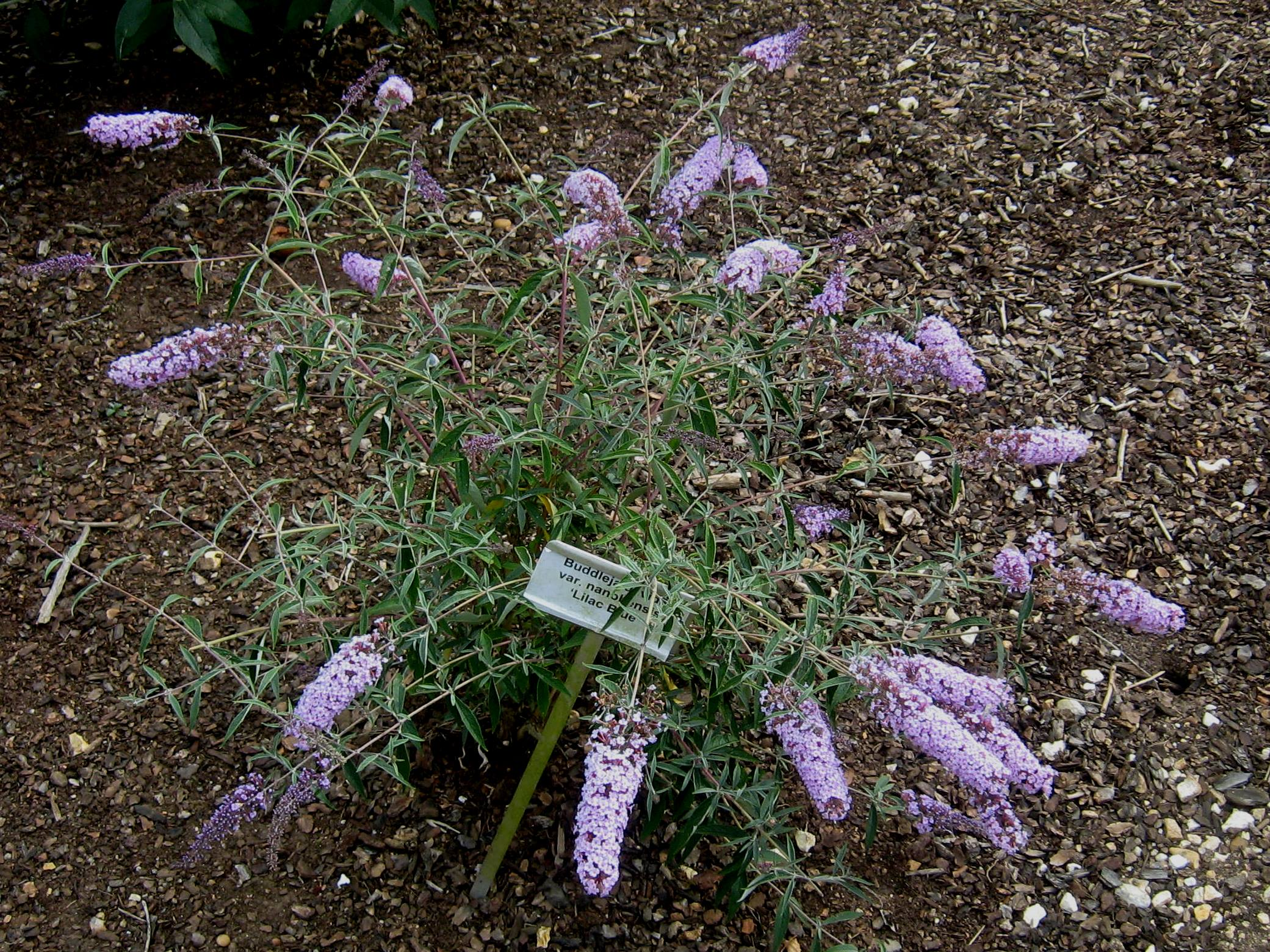 Photo of Buddleja davidii var. nanhoensis cultivar 'Lilac Blue' at Longstock Park, Hampshire, UK